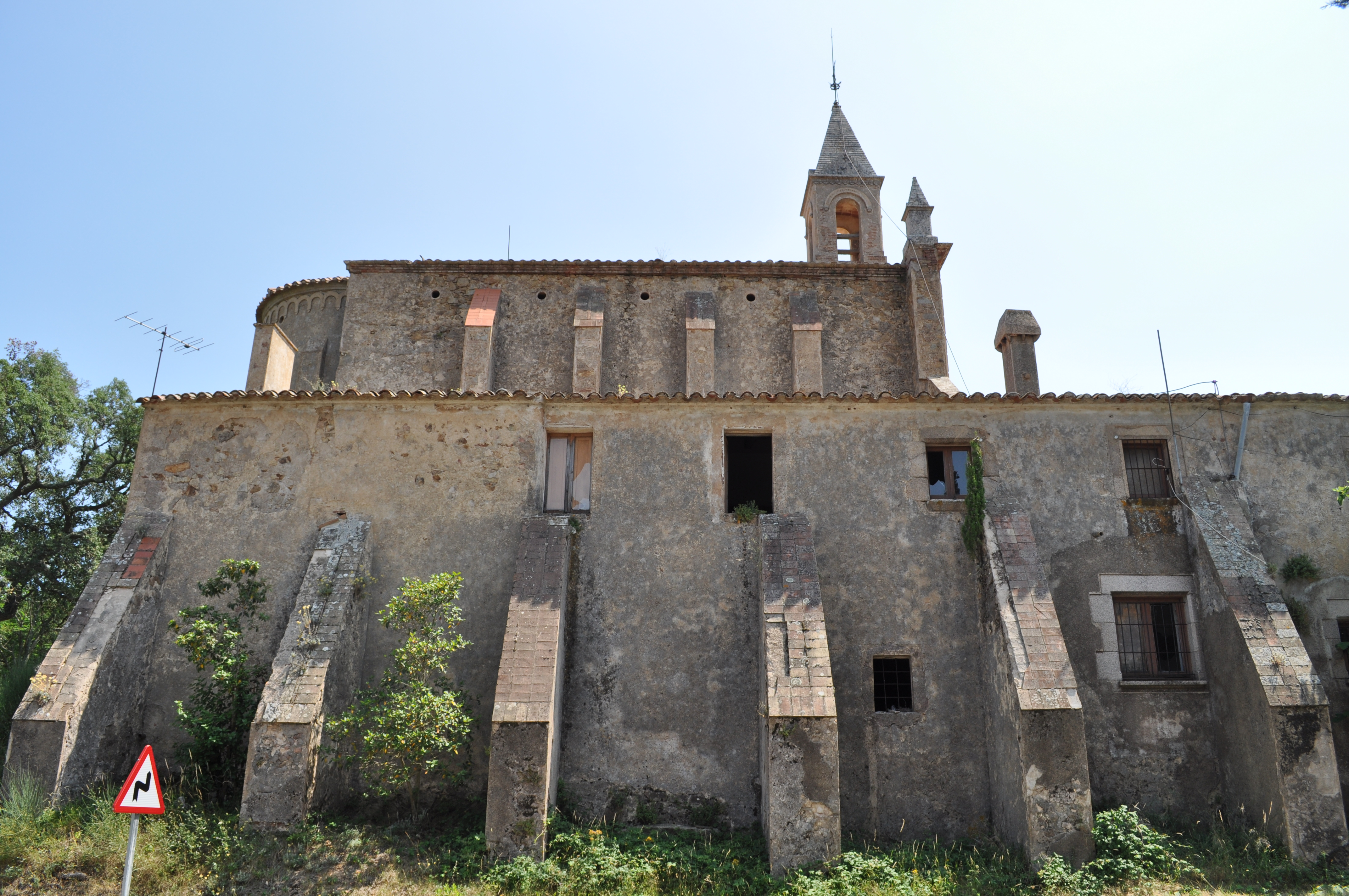 Eremitage Sant Grau near Tossa de Mar